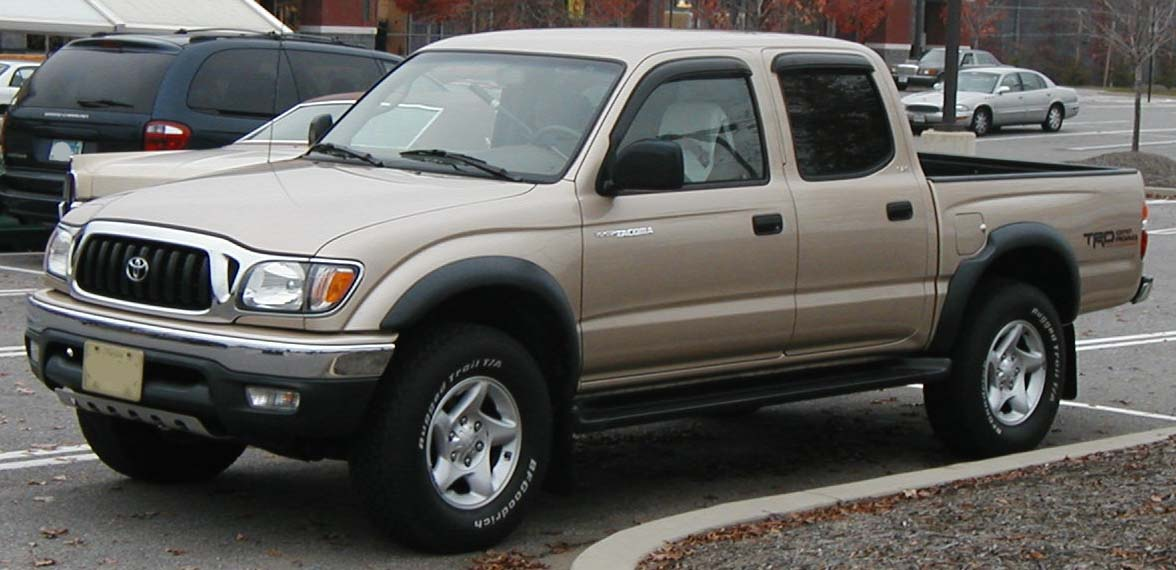 2001-2004 Toyota Tacoma Double Cab photographed in USA.